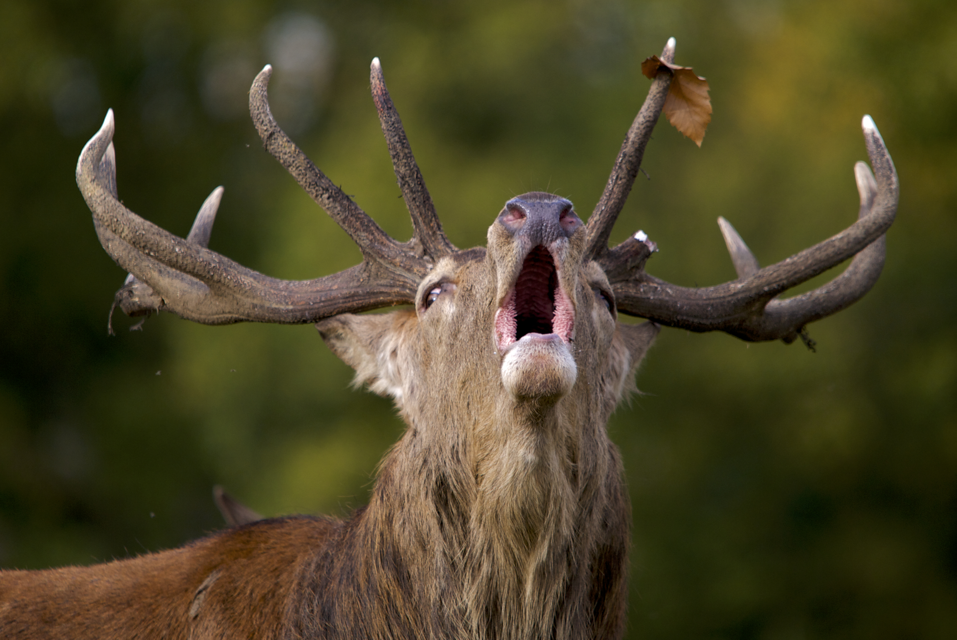 Closeup of mature Iberian Deer stag (Cervus elaphus hispanicus) bellowing during the rut